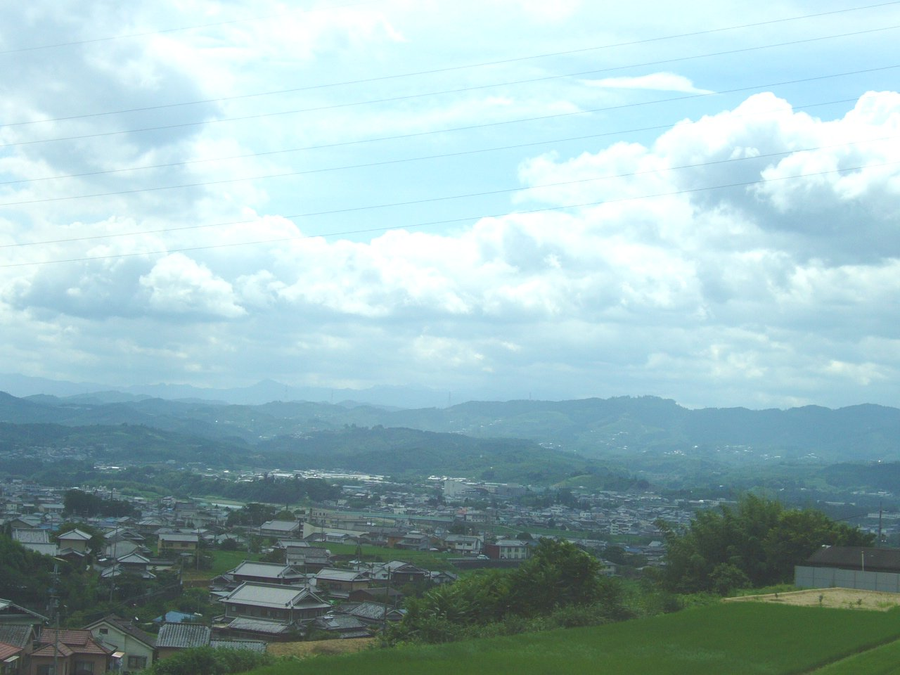 View of Gojo (Nara, Japan)